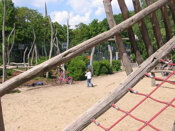 Volkspark Wilmersdorf in Berlin; playground